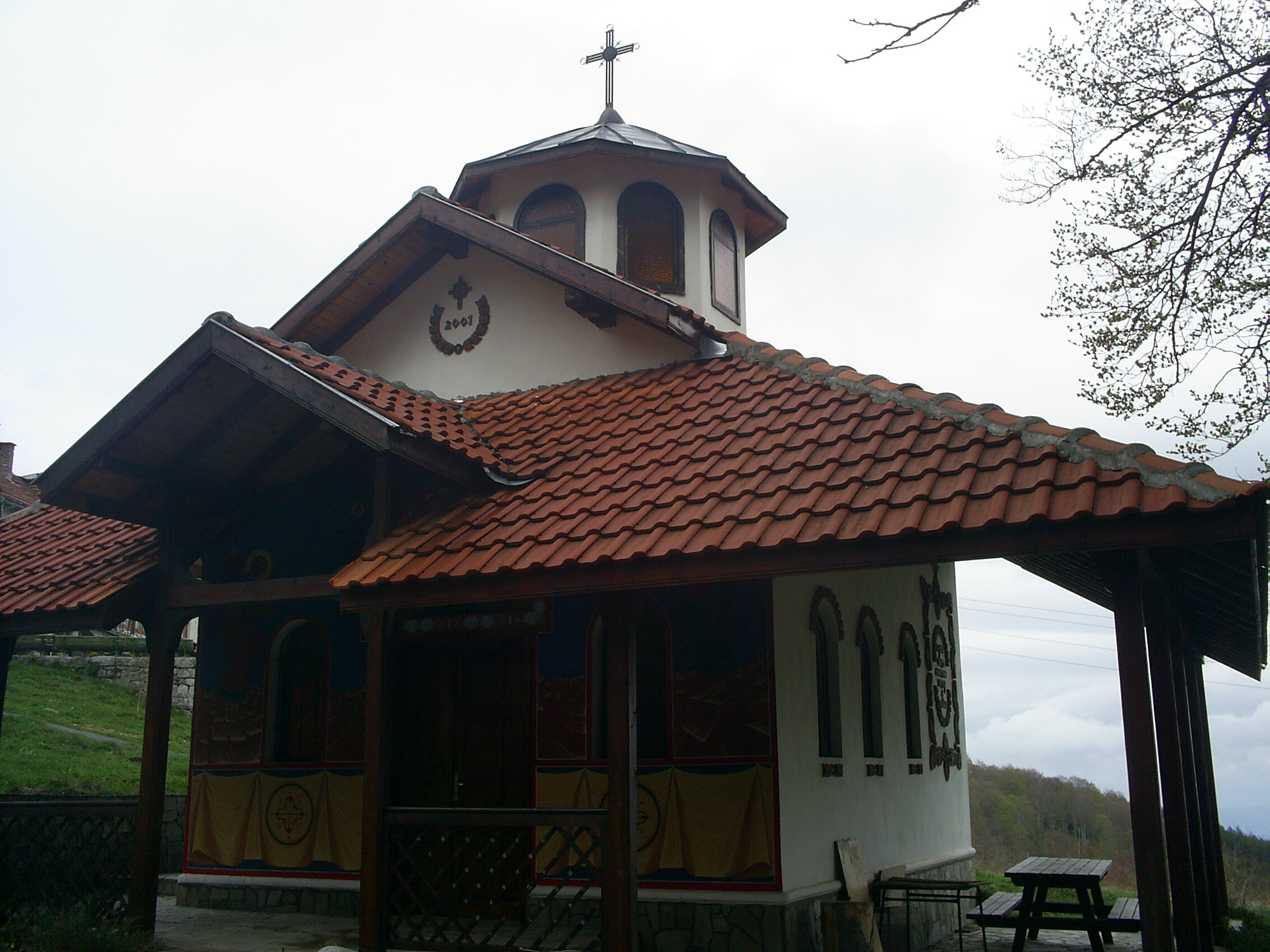 Chapel "Saint Peter and Paul" in Osogovo mountatin, Bulgaria, located at 1640 m heigt